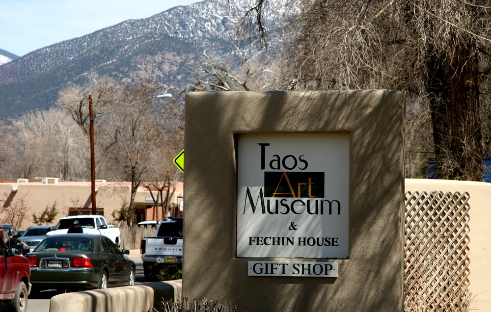 Taos Art Museum Sign